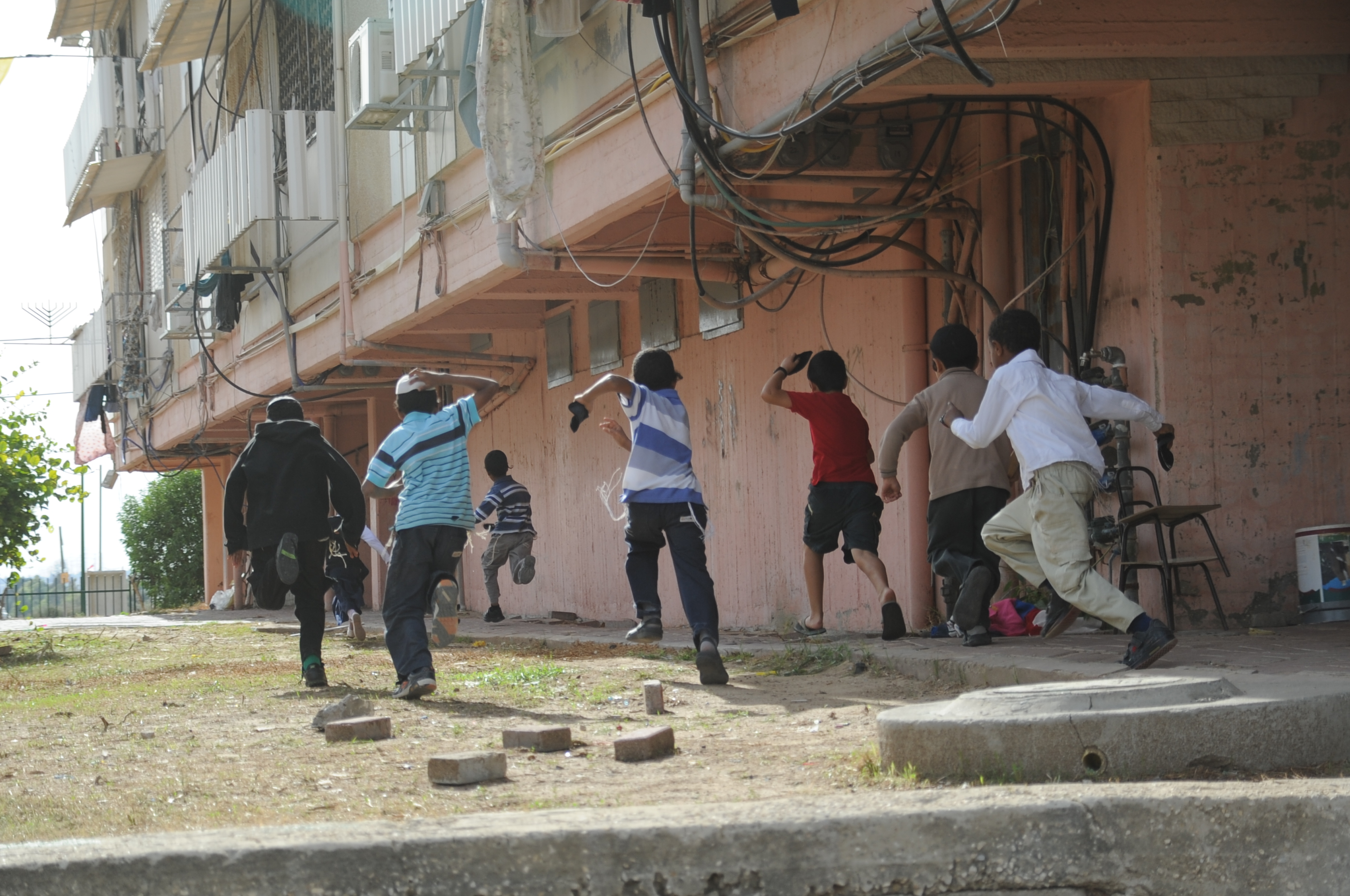 November 16, 2012 On November 14, the IDF launched Operation "Pillar of Defense", a widespread campaign against terror sites and operatives in the Gaza Strip. Over the past several days Hamas has fired hundreds of rockets at Israeli communities, threatening the lives of millions of civilians. Pictured: Local children from the town of Kiryat Malachi running for shelter as an air siren sounds. The previous day, three civilians were killed by a rocket strike in Kiryat Malachi. For more information, see our updating post. For more from the IDF